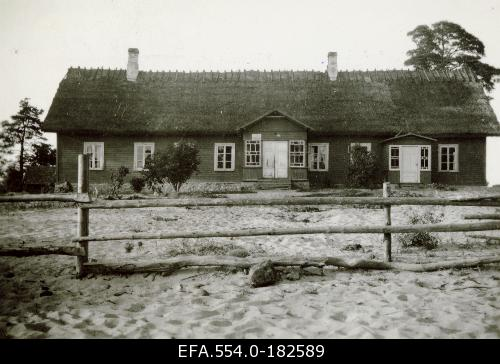 School in Kaberneeme